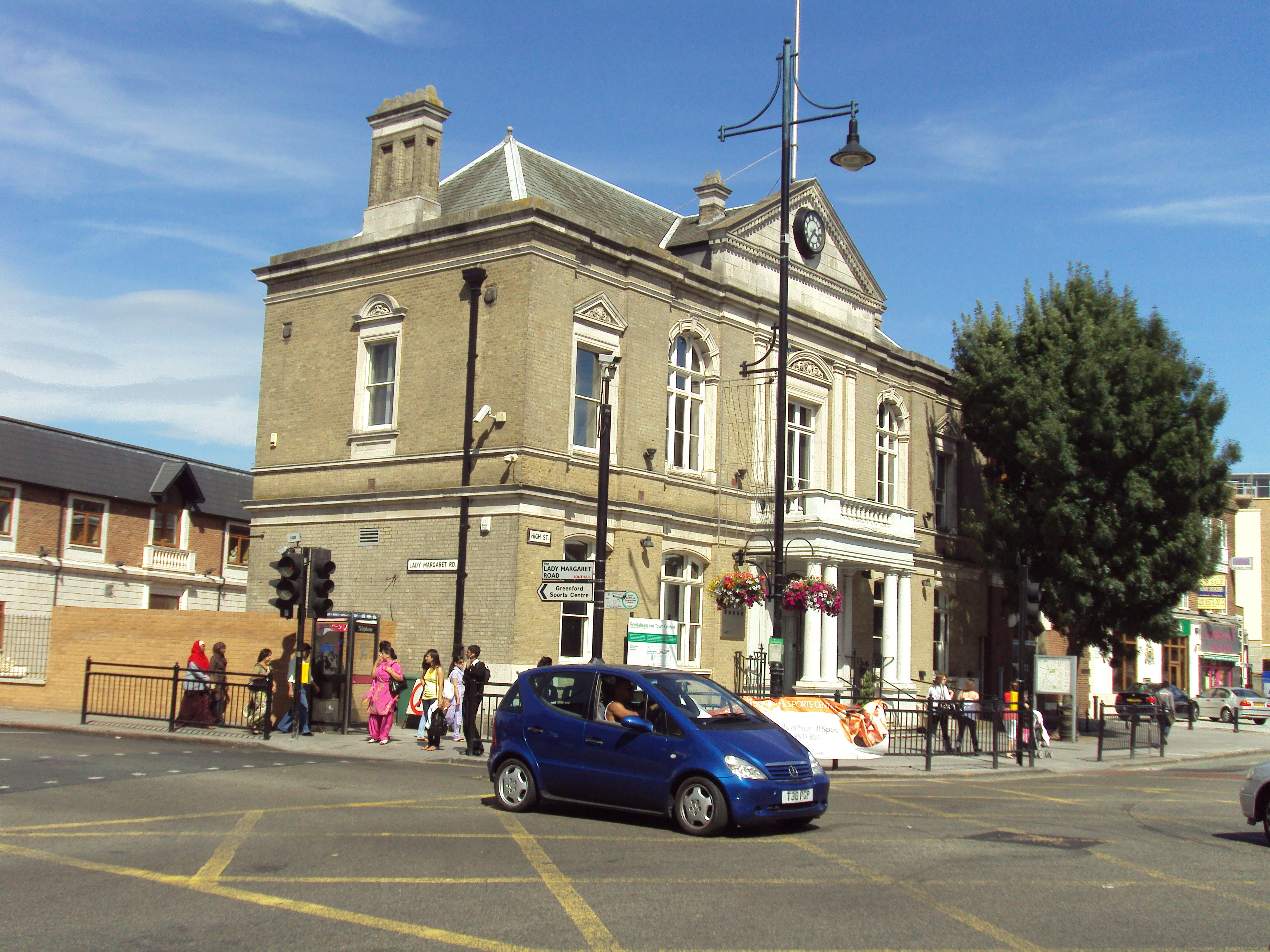 The old town hall on High Street, Southall, West London.